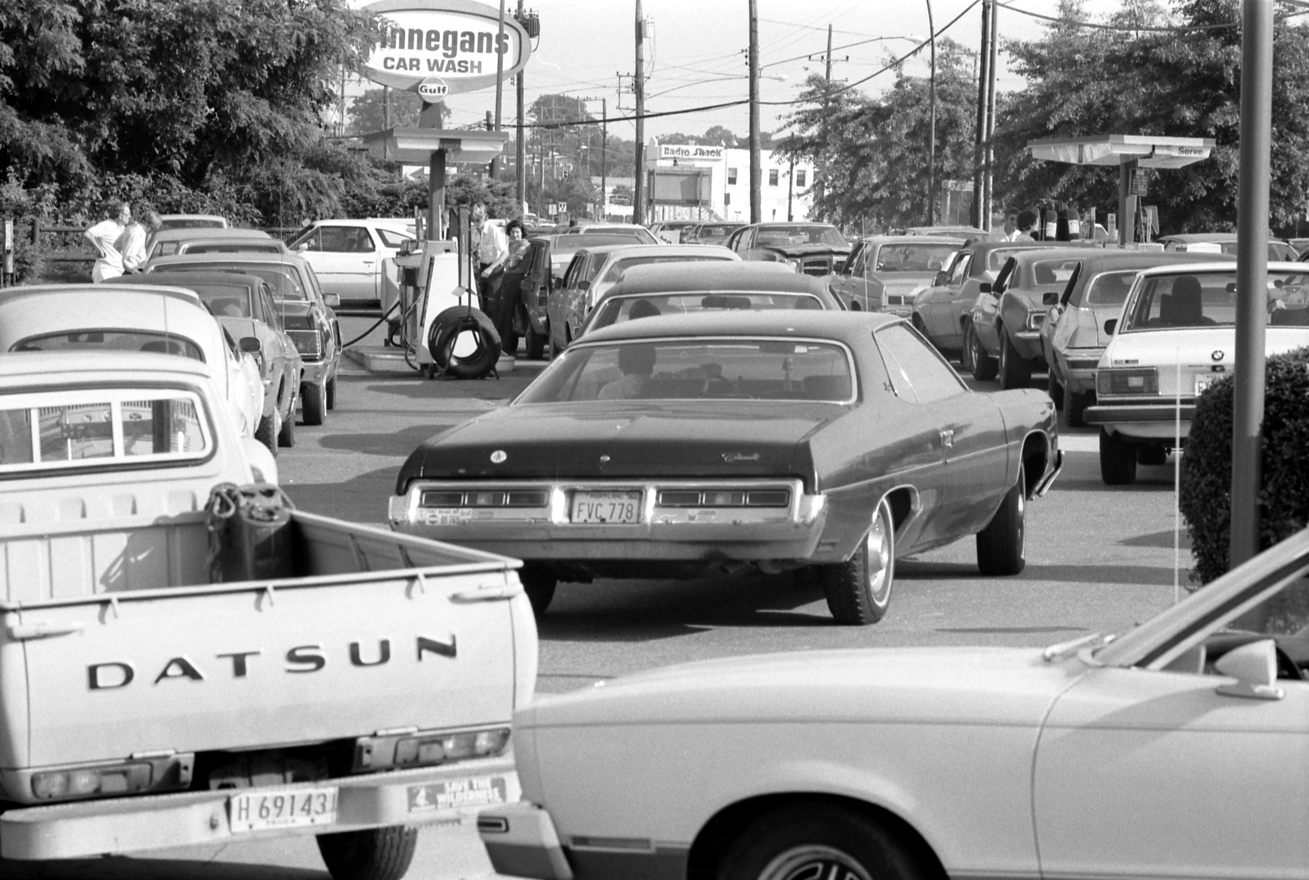 Automobiles lining up for fuel at a service station in the U.S. state of Maryland in the United States, in June 1979.